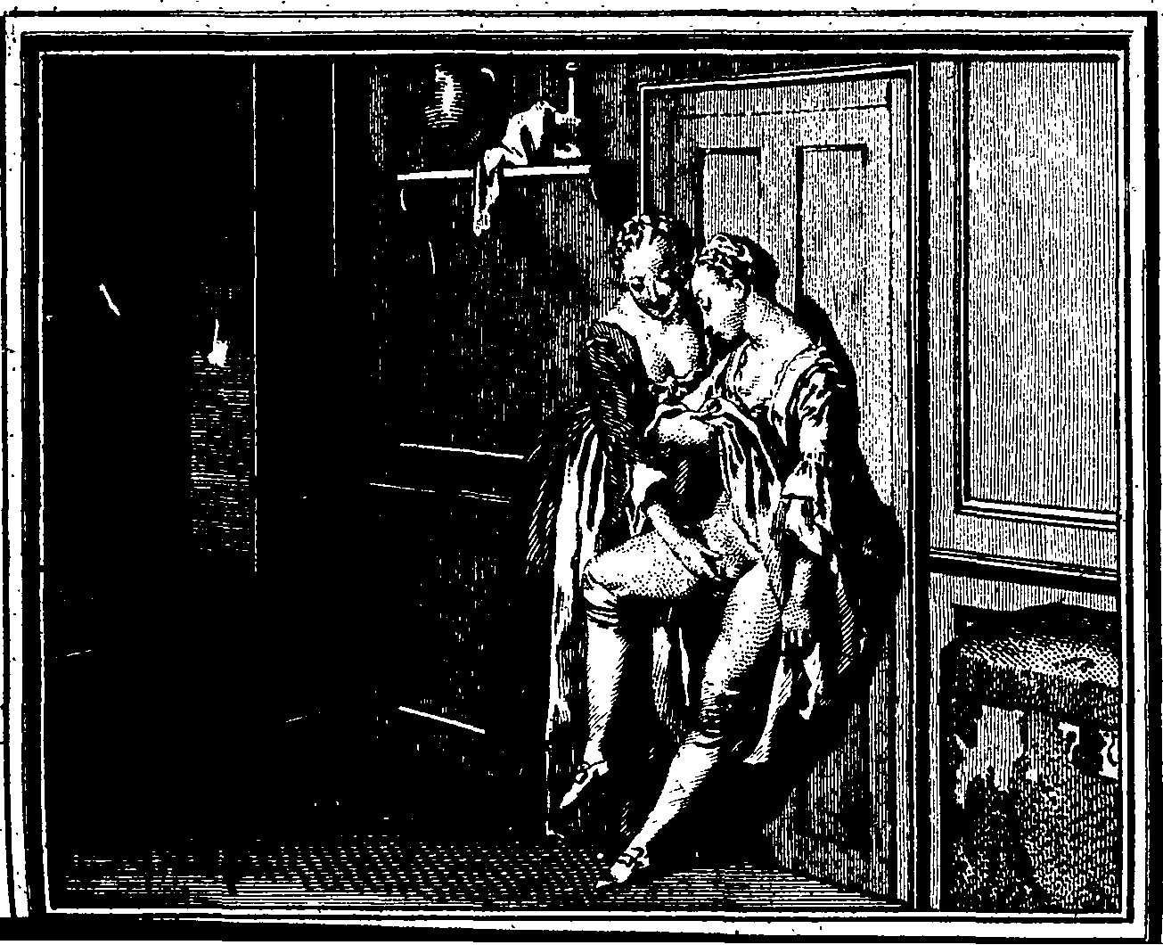 Engraving from: John Cleland: Memoirs of a woman of pleasure. From the original corrected edition. With a set of elegant engravings. ... London, 1766. Vol. 1, 169 pp. Vol. 1 (of 2), p. 50